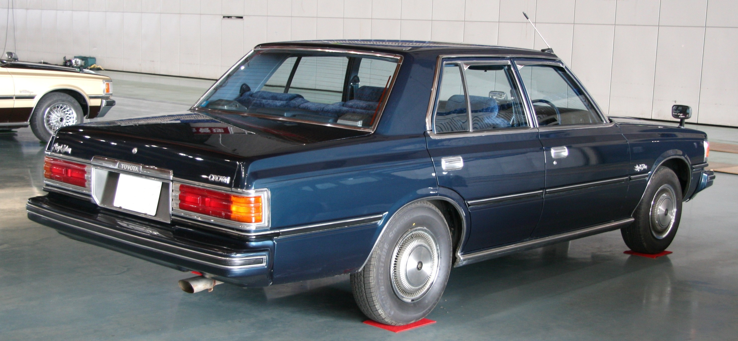 Toyota Crown